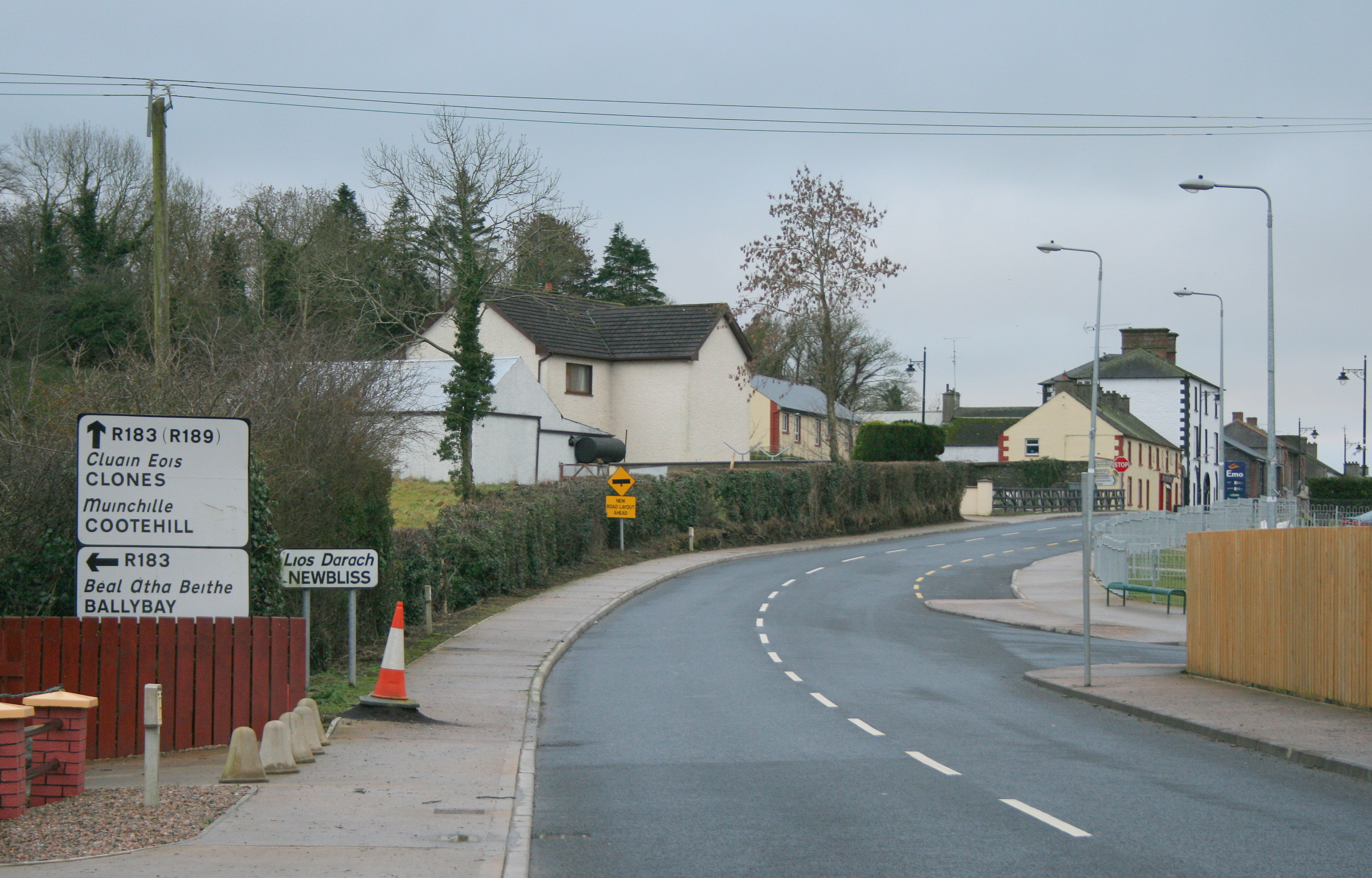 Approaching Newbliss, County Monaghan from the north on the R189 road.